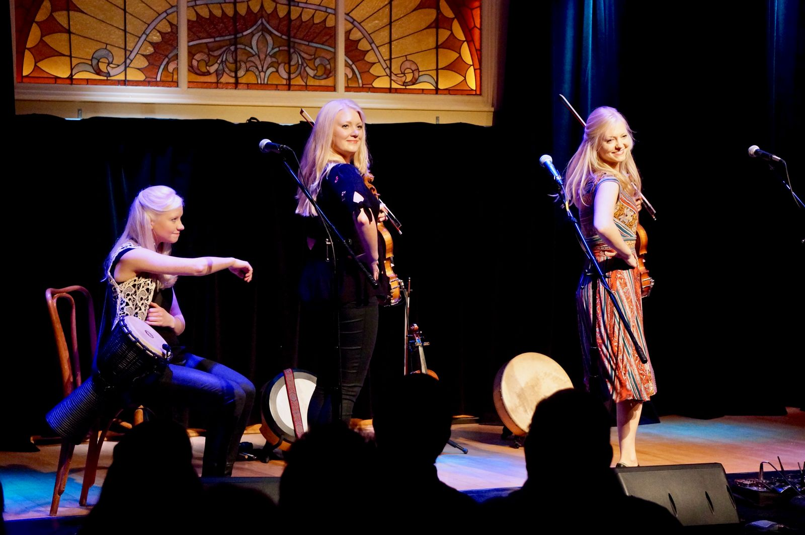 (From left to right): Solana, Greta and Willow Gothard during a performance in 2018; they switch musical instruments during their shows, which is why other instruments can be seen behind them.